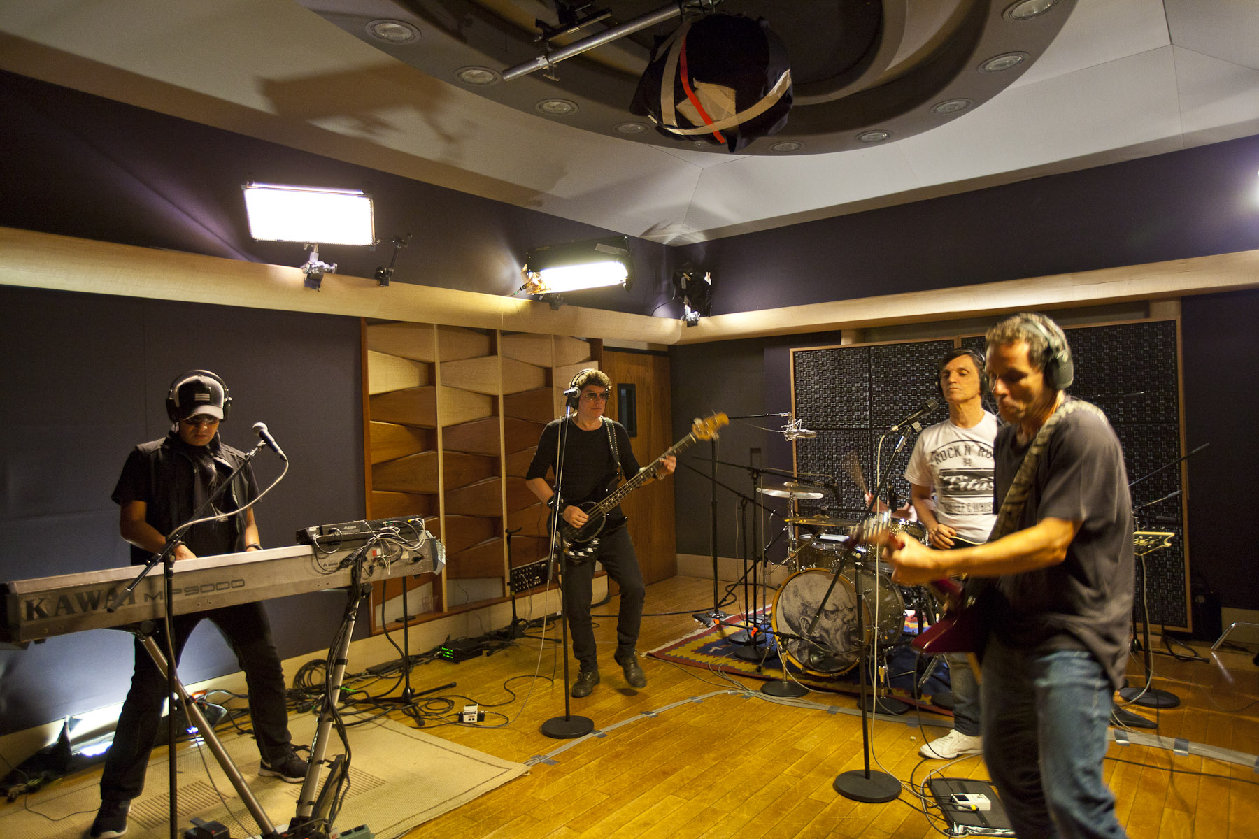 Titãs in 2013 shooting some images of them recording "Cabeça Dinossauro" for the Brazilian film Vai Que Dá Certo in São Paulo, São Paulo, Brasil.